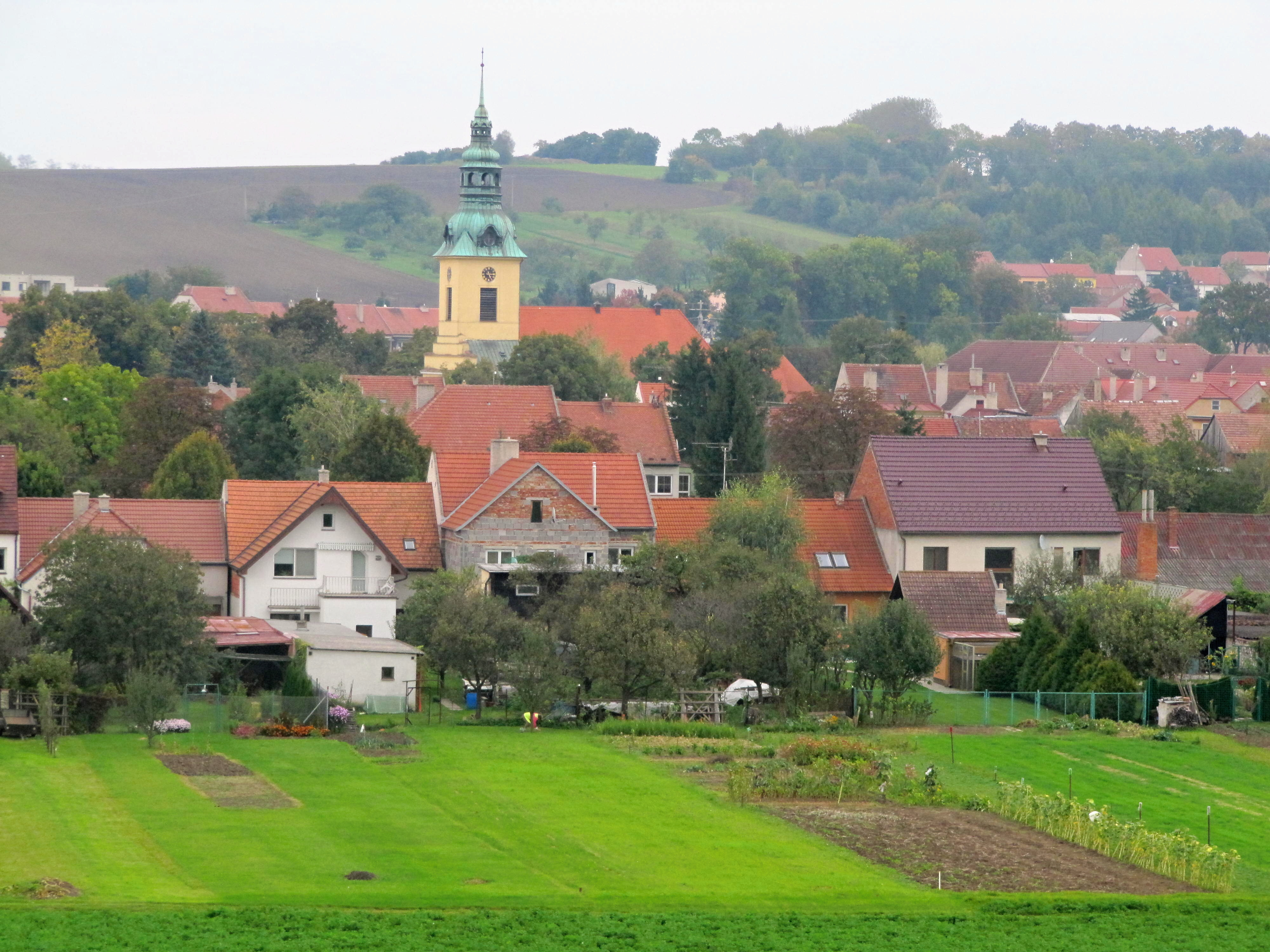 Nivnice in Uherské Hradiště District, Czech Republic.General view. This photograph was taken within the scope of the third year of the 'Czech Municipalities Photographs' grant.